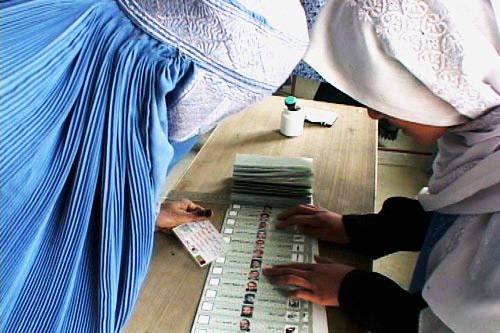 A Joint Electoral Management Body employee, right, explains how to fill out an election ballot to an Afghan woman in the village of Raban during Afghanistan's first democratic presidential election October 9th.